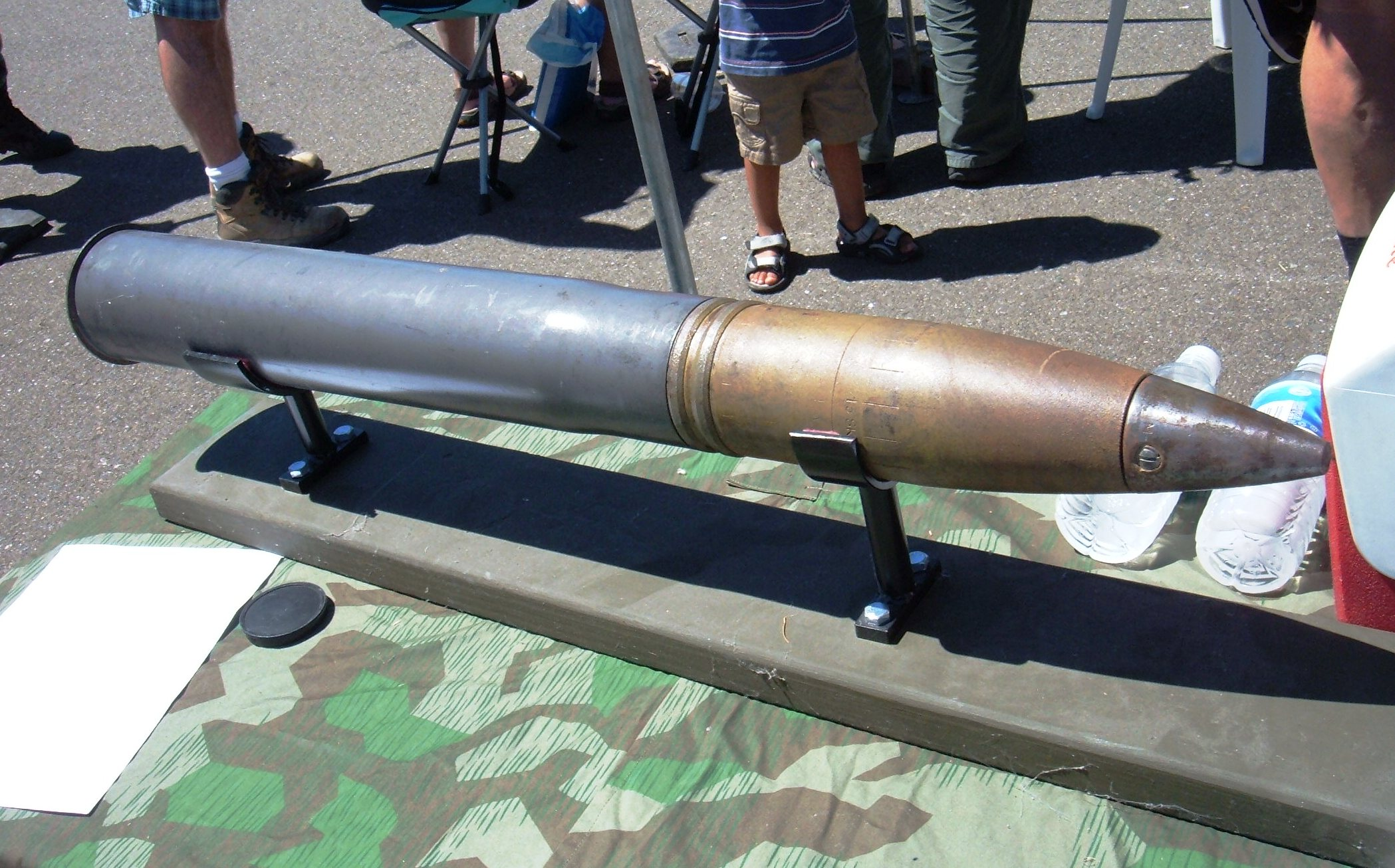 88 mm High-Explosive shell on display at the Wings over Wine Country 2007 air show at the Charles M. Schulz - Sonoma County Airport in Sonoma County, California.